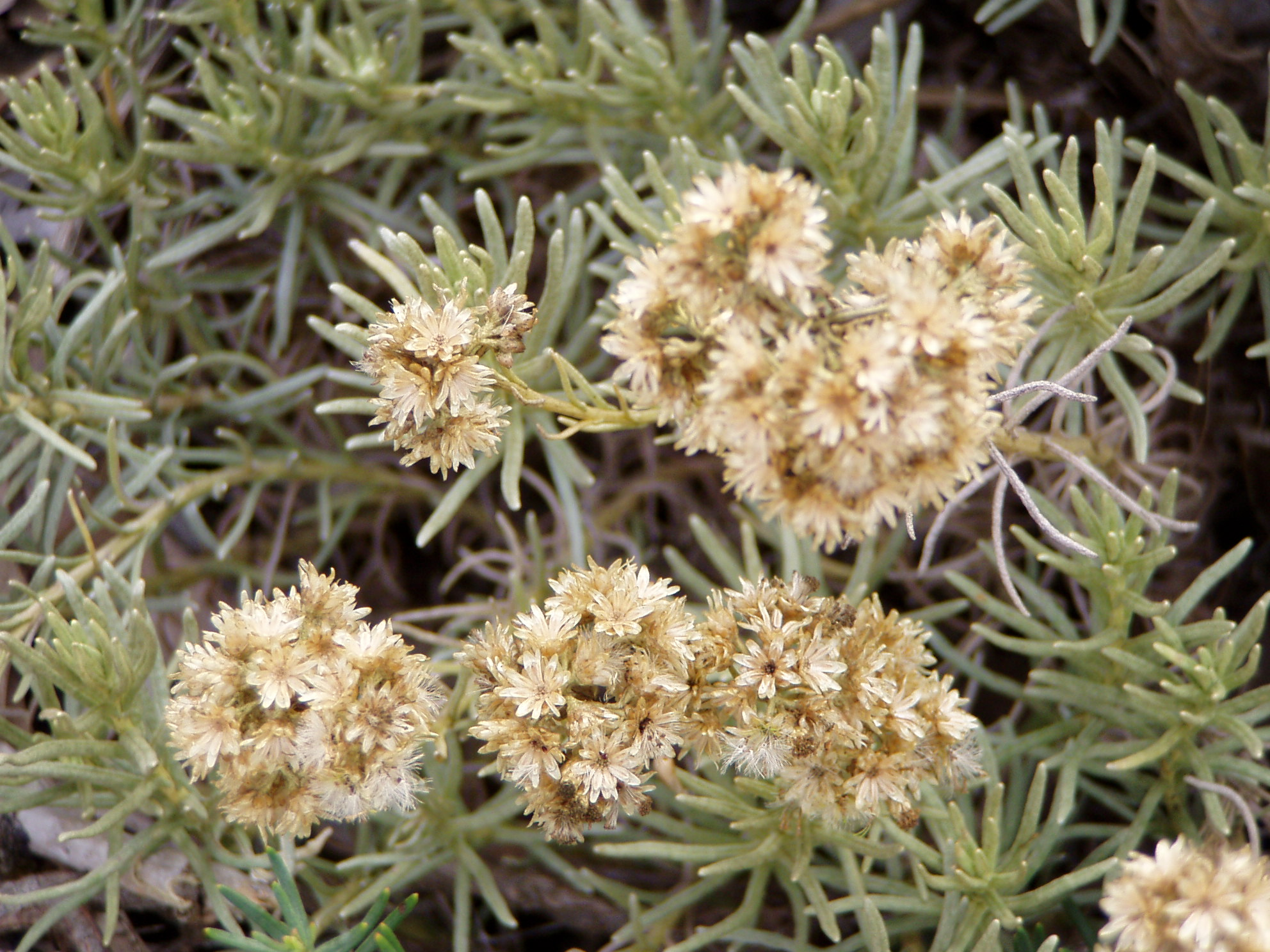 Curry Plant